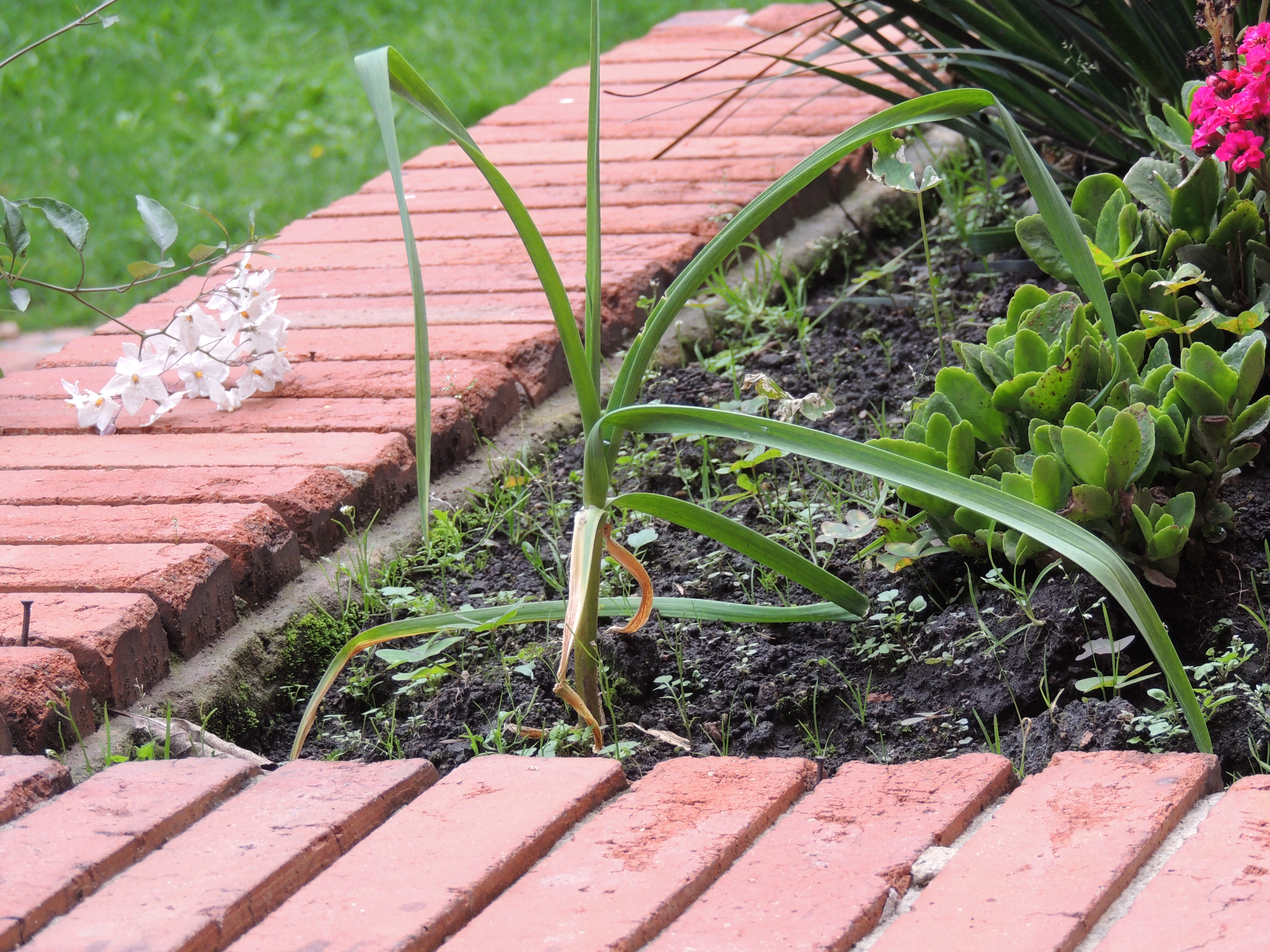 Garlic plant sown from a garlic clove, within other plants.